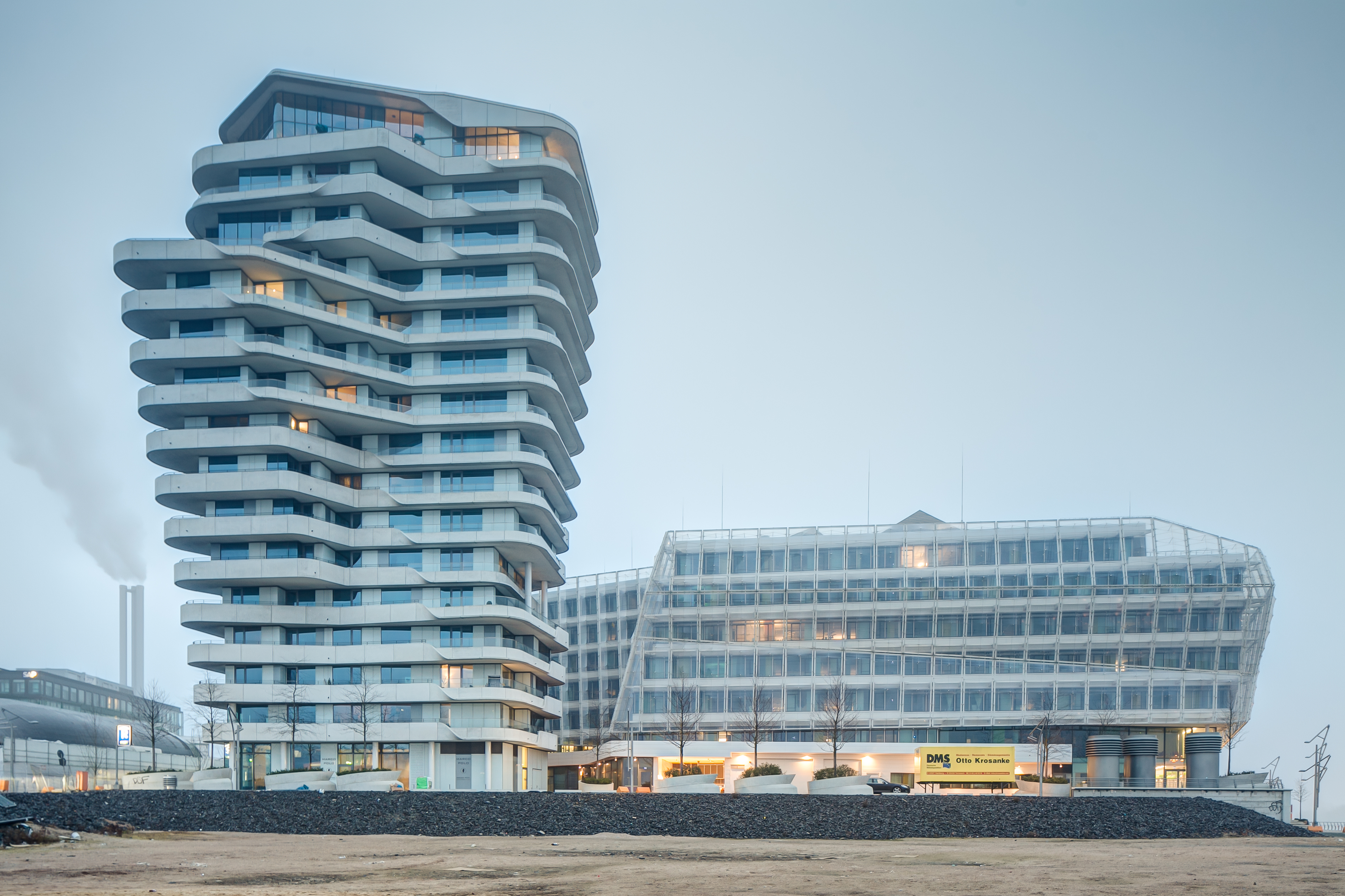 Unilever House and Marco Polo Tower located at Hafen City district in Hamburg, Germany.